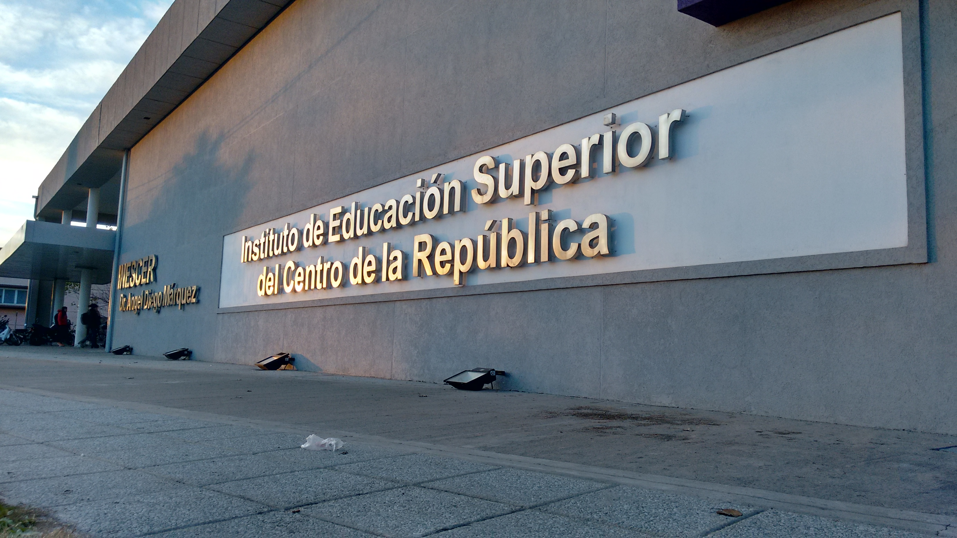 Frente inescer